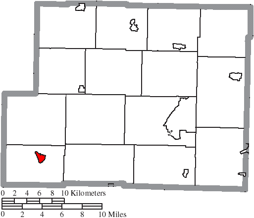 Map of the municipal and township boundaries of Harrison County, Ohio, United States, as of the 2000 census, with the location of the village of Freeport highlighted. Township borders are shown only in unincorporated areas in order to differentiate incorporated and unincorporated areas more clearly.